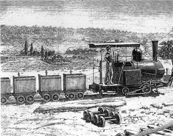 Morts Dock built locomotive at Adelong